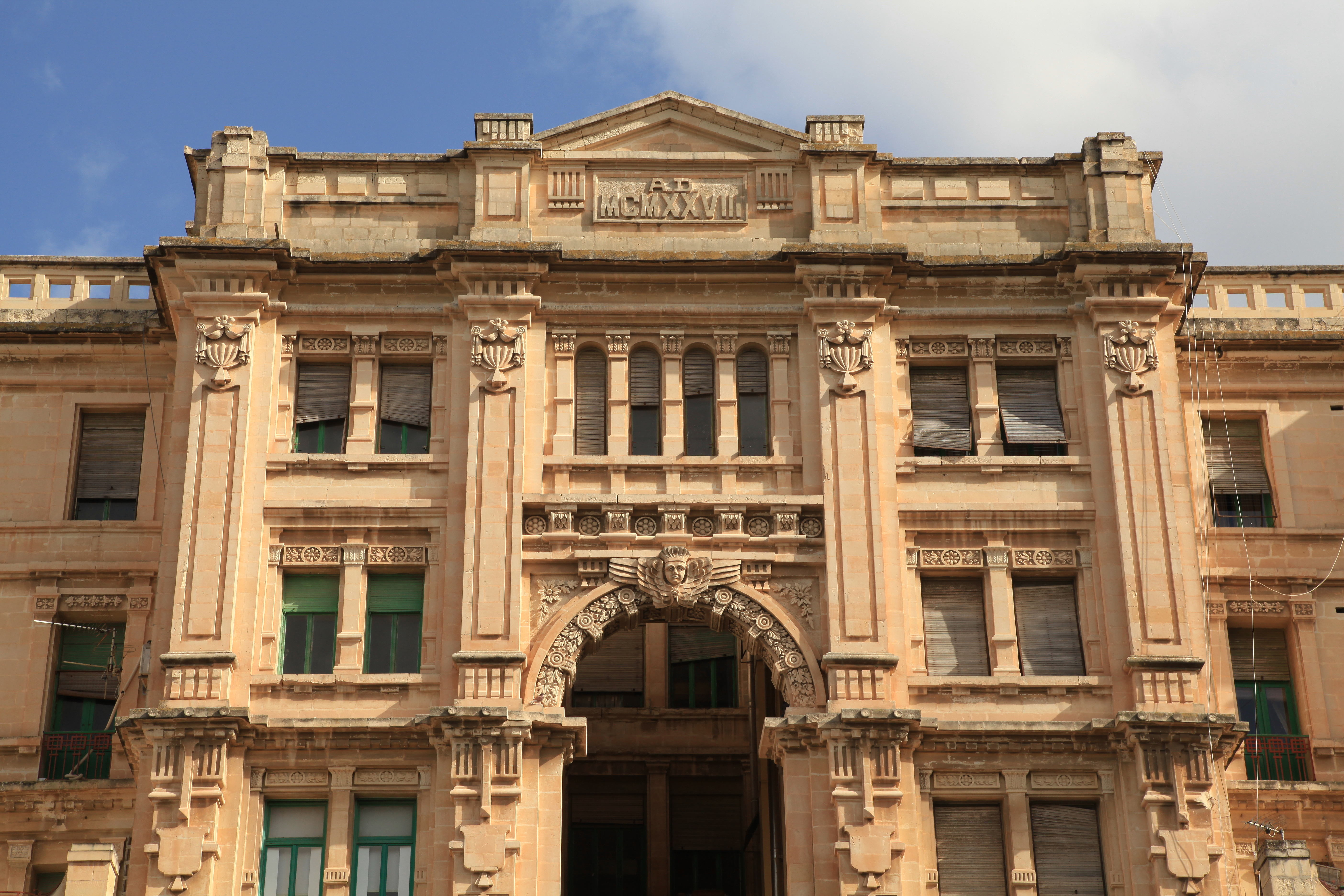 Balluta Buildings, Pjazza tal-Balluta in St. Julian's (San Ġiljan), Malta